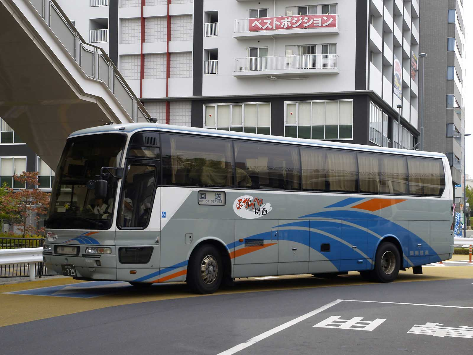 Fleet of Kanto Railway Bus, for overnight ontercity route "Yokappe Kansai". Model: Mitsubishi Fuso Aero Queen I KL-MS86MP License plate: IGM200 KA-329 Place: Mito station south